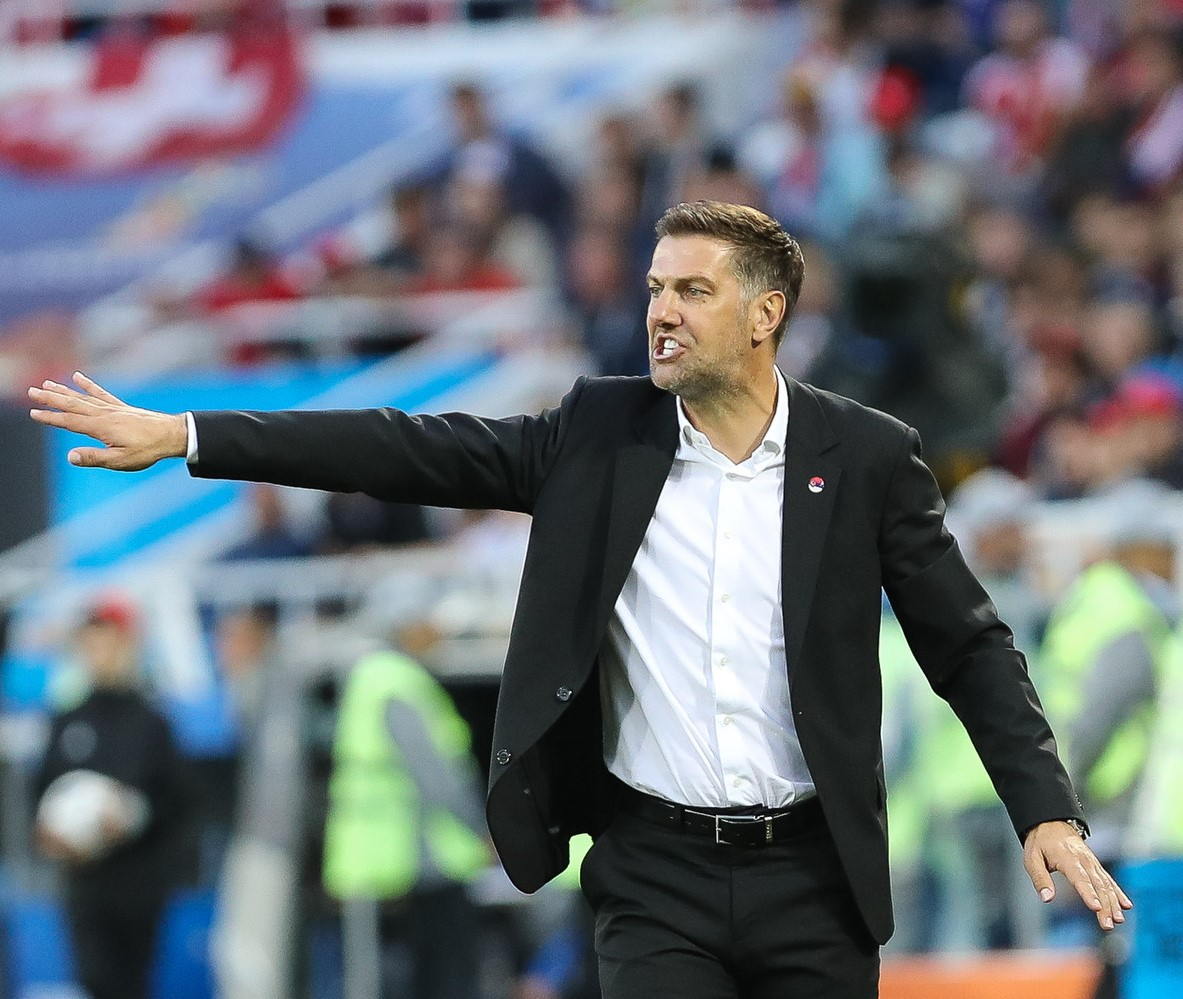 Mladen Krstajić